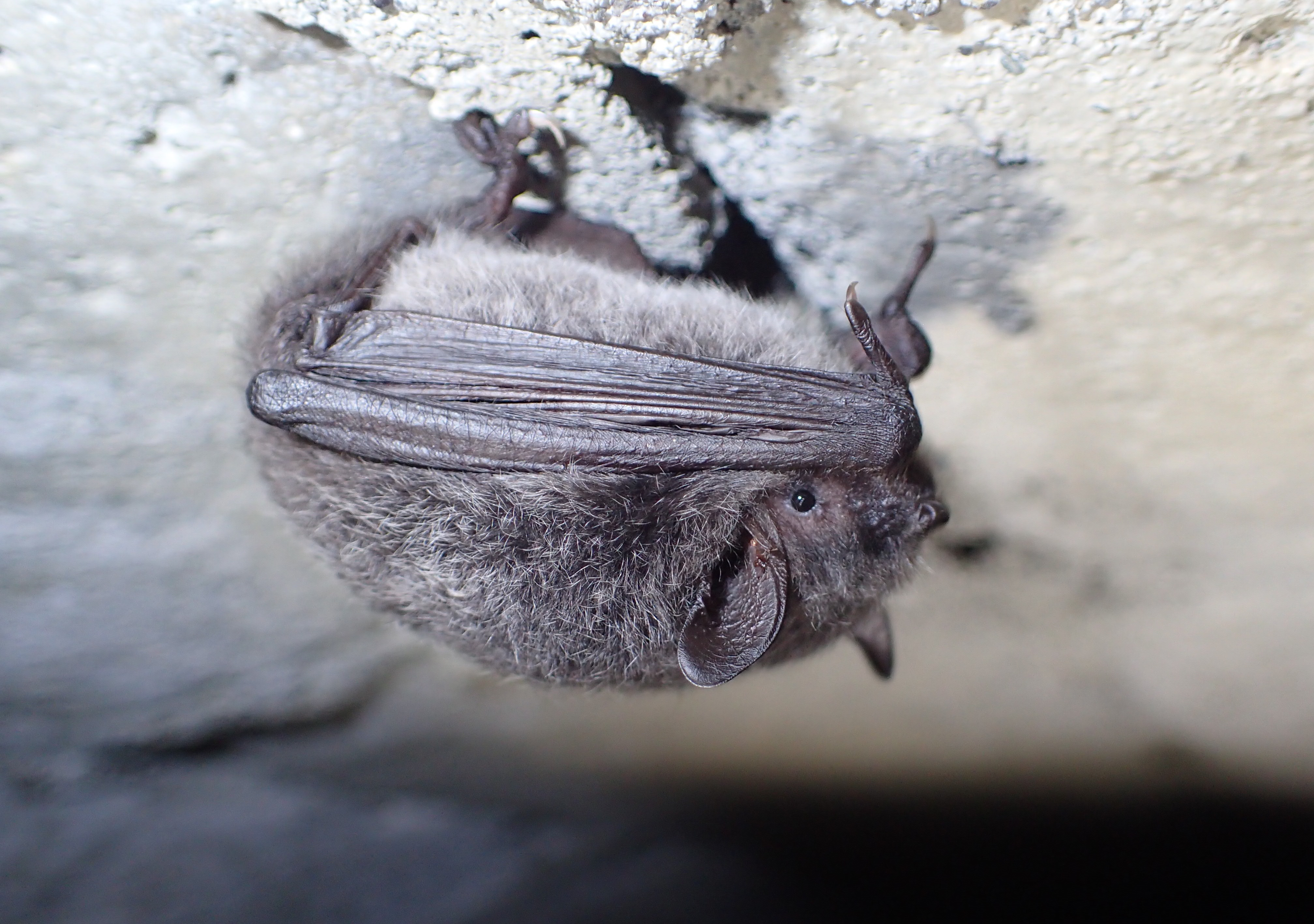 Japanese Large-footed Bat,Eastern Long-fingered Bat